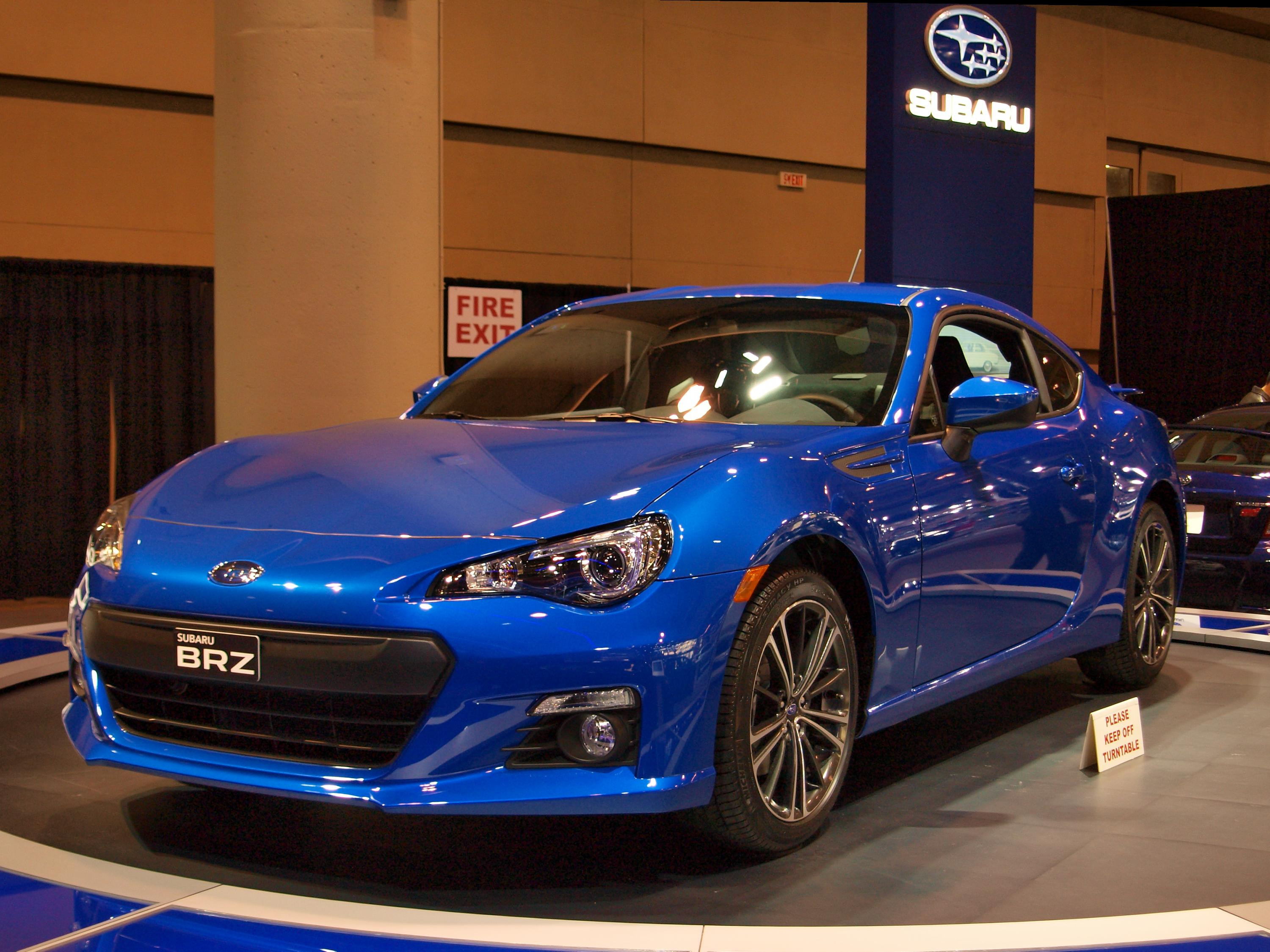 Would this be he competition for the Genesis coupe?